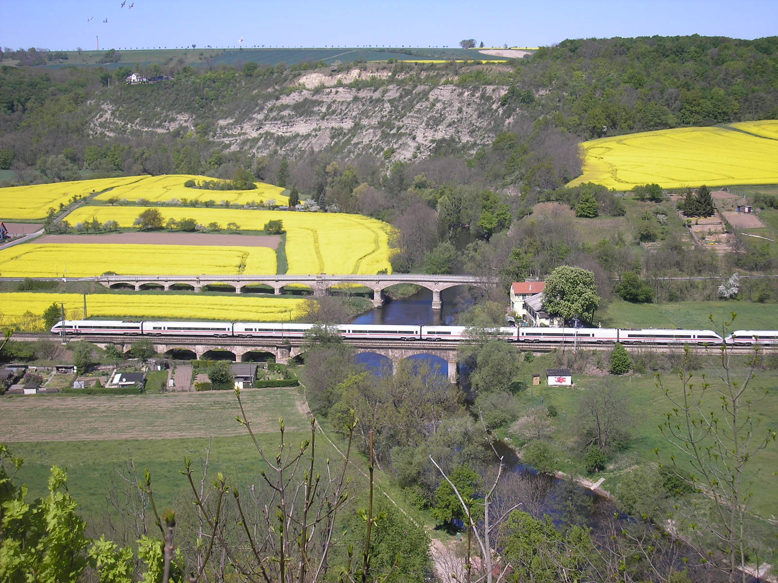 InterCityExpress on bridge over the Saale near Saaleck, taken from Rudelsburg